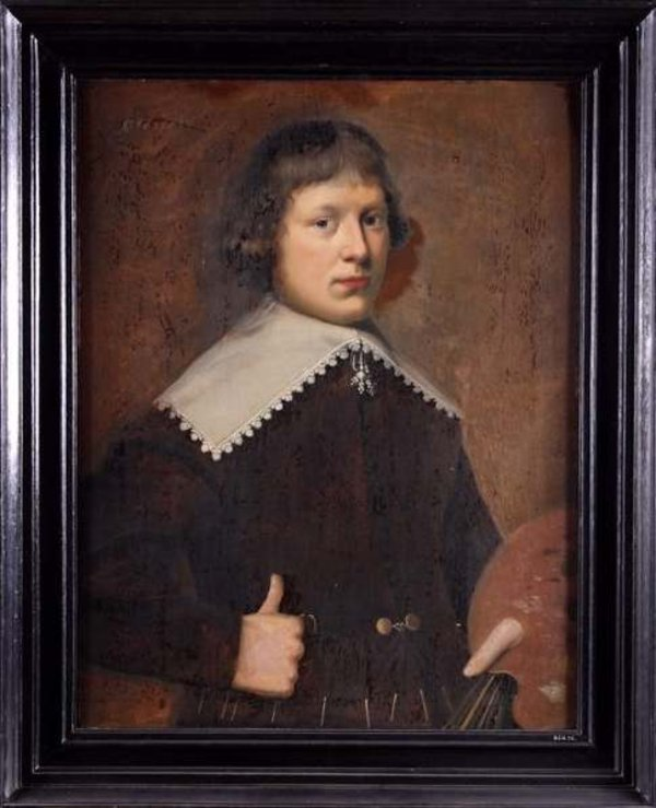 This image is available from the Netherlands Institute for Art Historyunder digital ID 173135. This tag does not indicate the copyright status of the attached work. A normal copyright tag is still required. See Commons:Licensing.